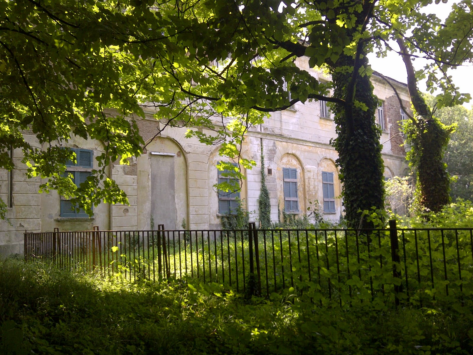 The picture represents the hospital in an abandoned state